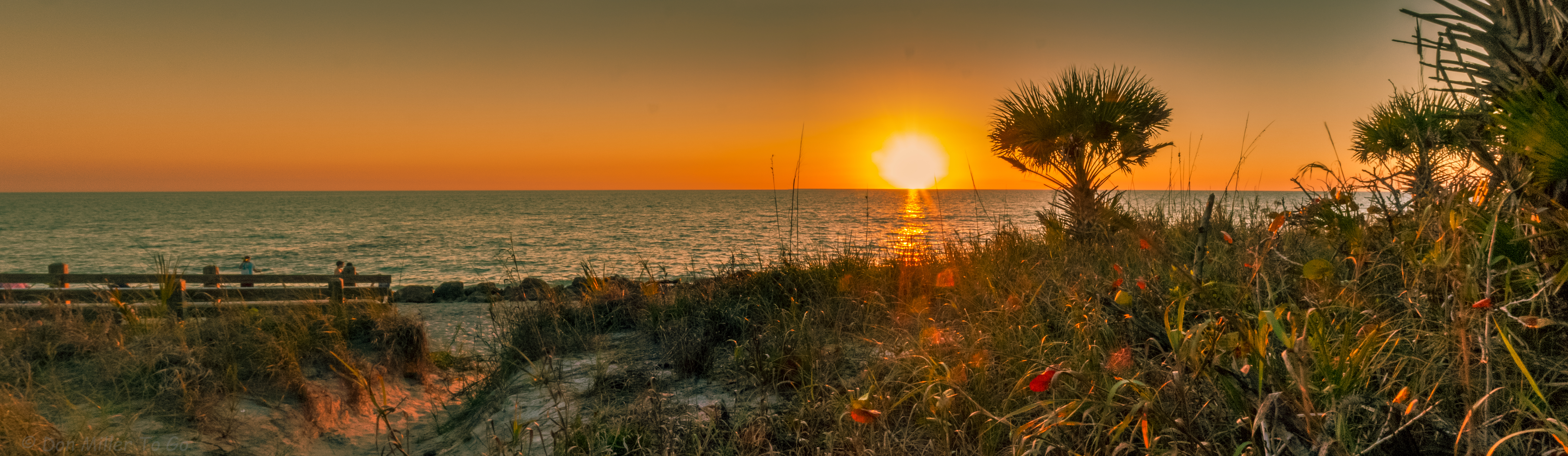 Caspersen Beach, Manasota Key, Florida